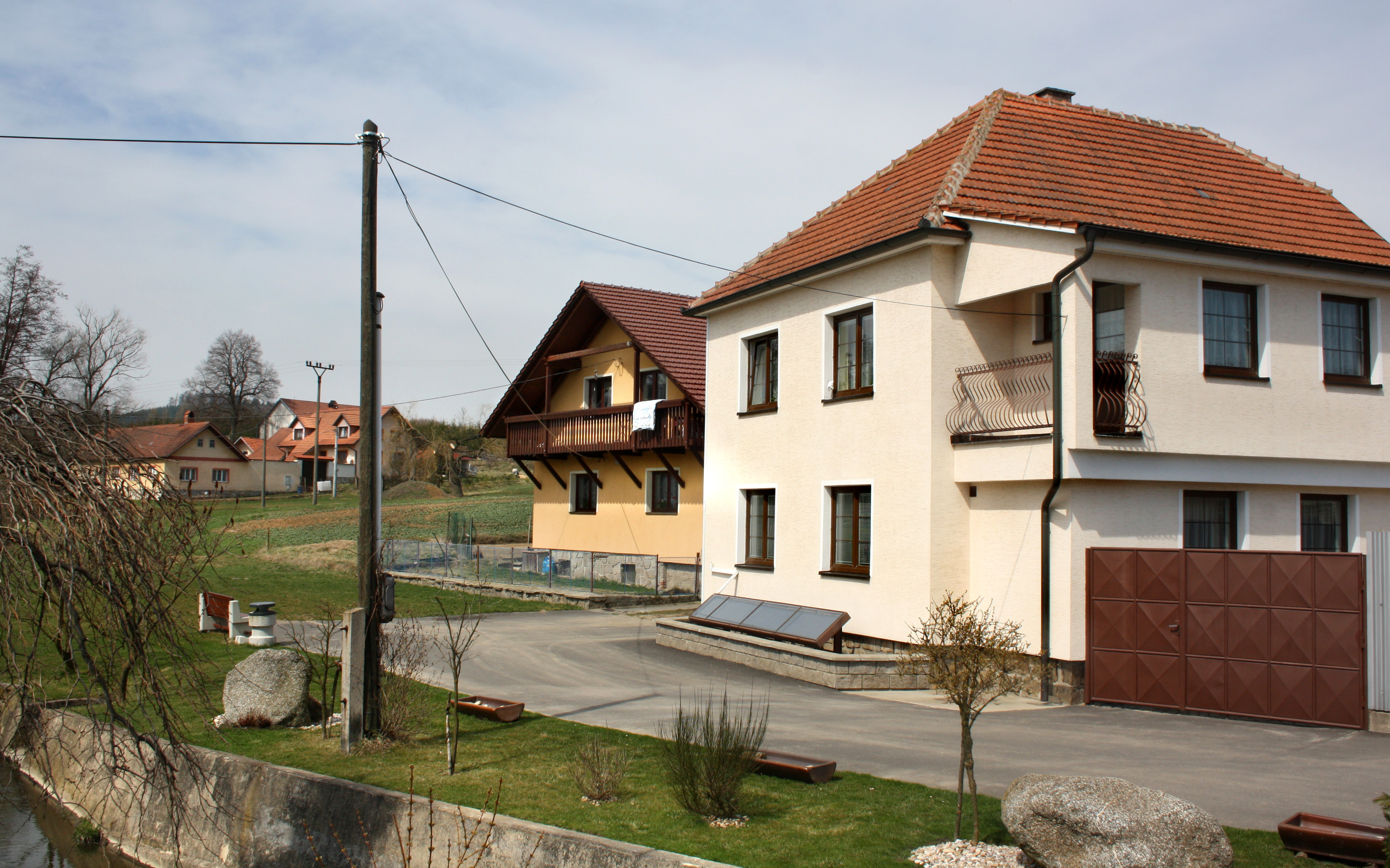 Lower part of Pohořílky, part of Otín village